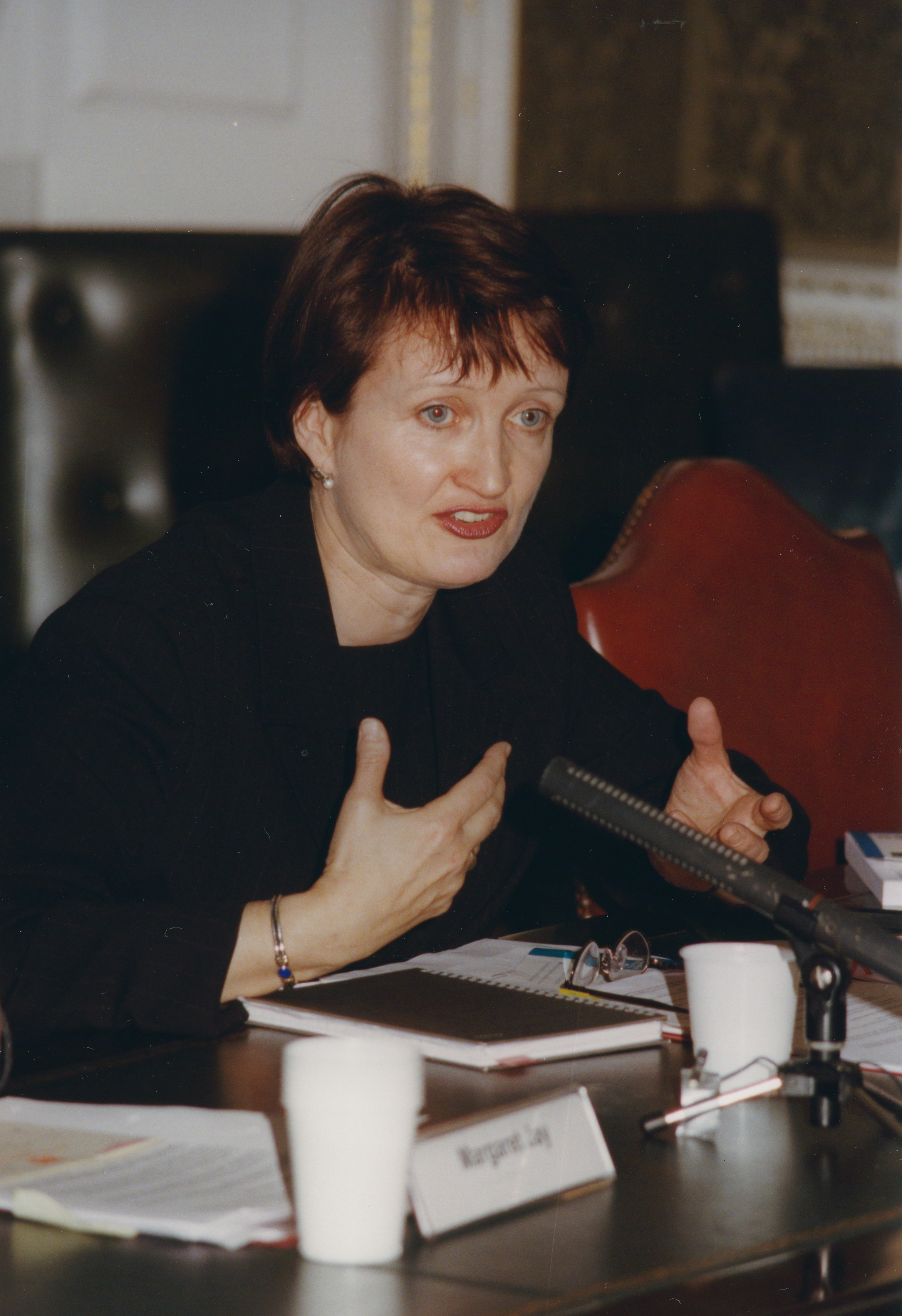 Lecture on 'Women's income over time' , 21st February 2000 IMAGELIBRARY/816 Persistent URL